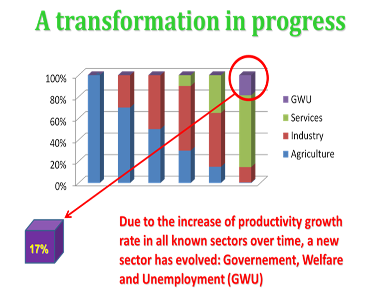 The picture is used to illustrate the concept of "Customization" and "Rerelocalization" in the article “Transformation in Economics" written by Professor Milan Zeleny.